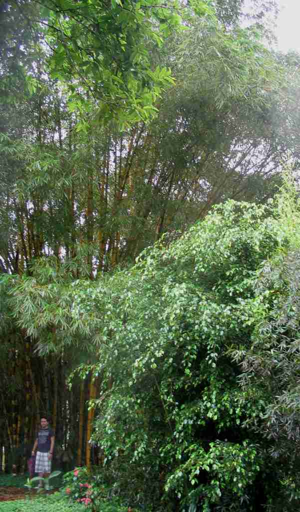 Giant Bamboo in Ecuador with a person next to it to show the relative size